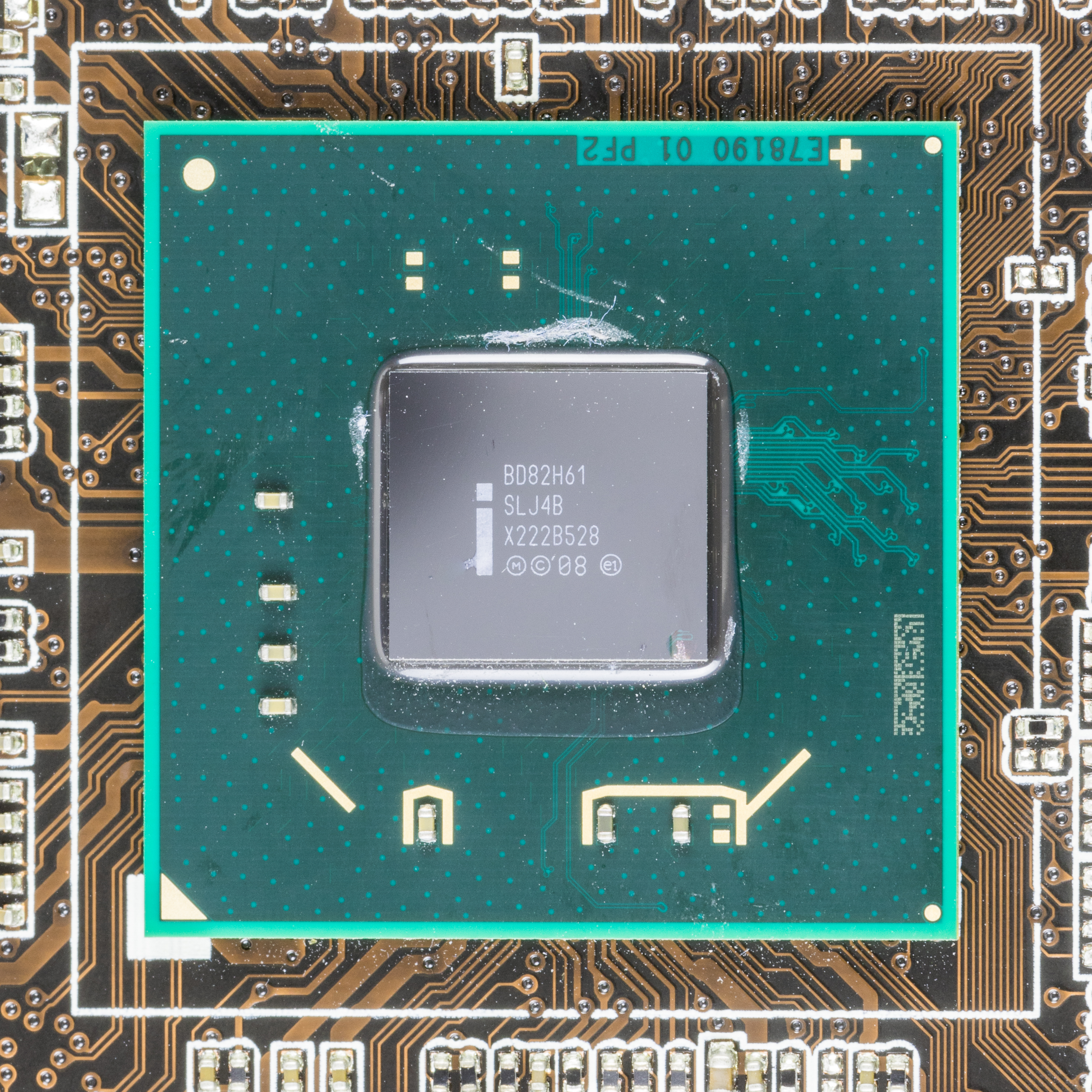 Asus P8H61-MX USB3 - Intel BD82H61 - SLJ4B - PCH Cougar Point